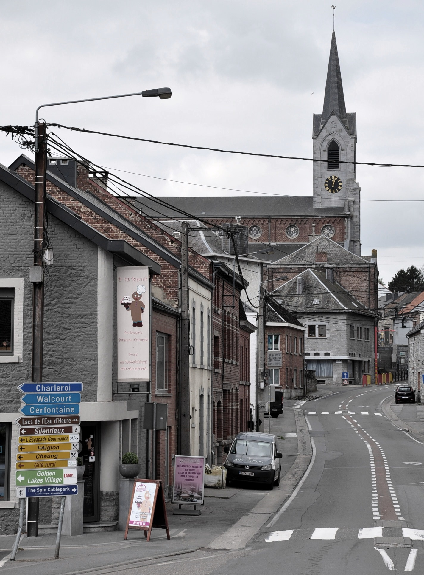 Main street (Rue Royale, N40) through Silenrieux (municipality Cerfontaine, Namur province, Belgium).